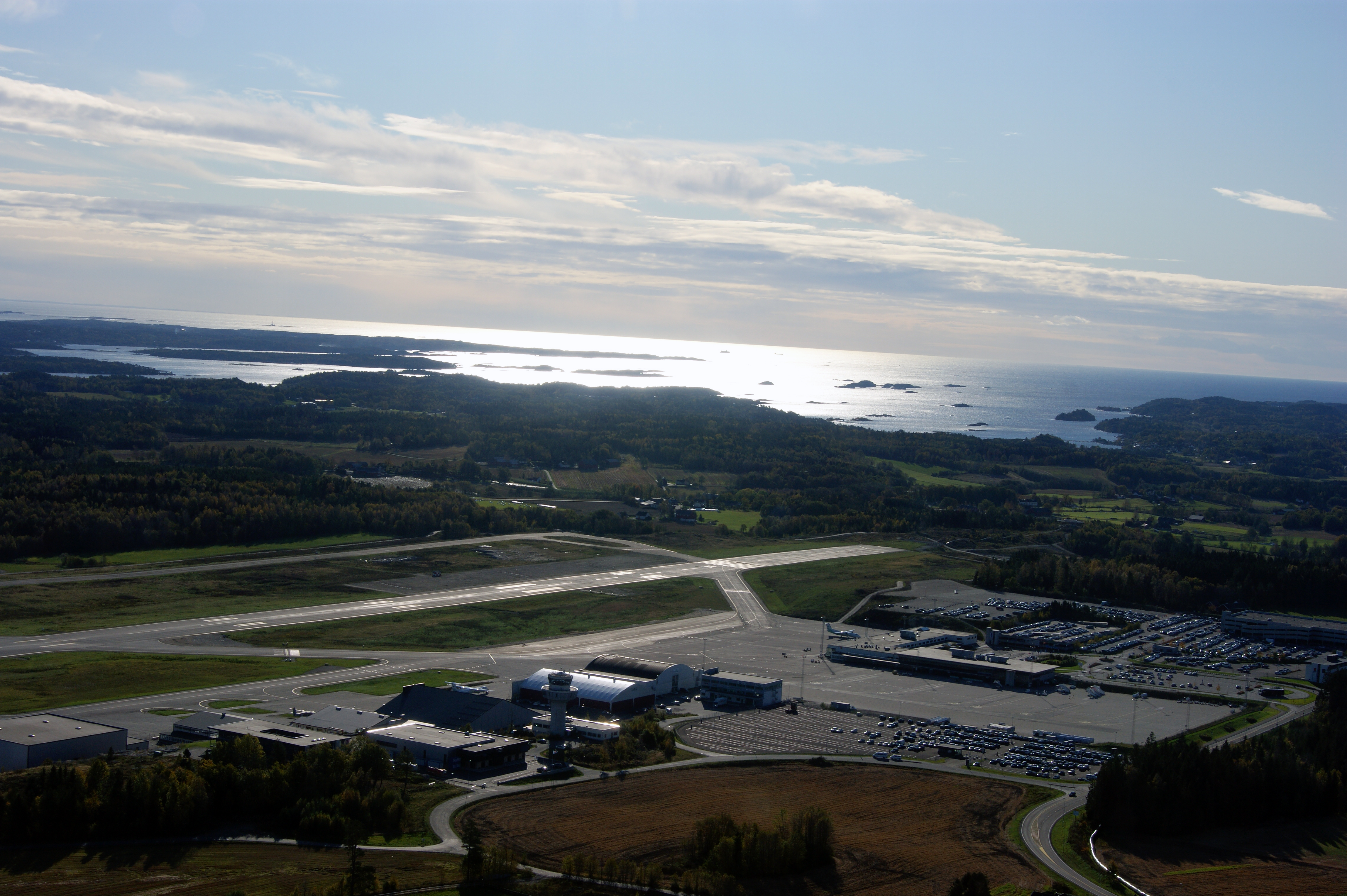 Torp Airport from about 800 feet.